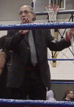 Bill Apter (left) and Rodney Mack (right) at an NWA Cyberspace in May 2005.